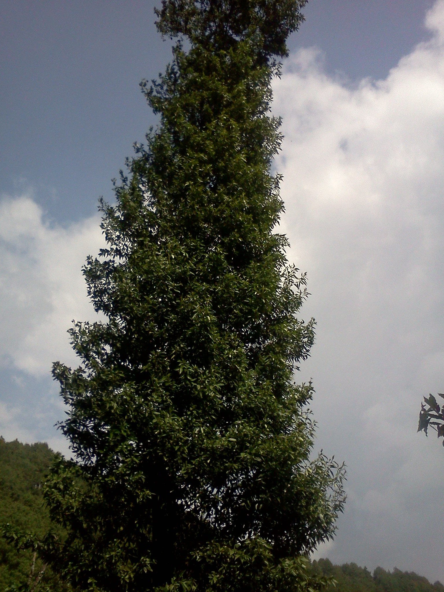 This tree gives fruit, that is used for medicinal purposes and also used for timber.